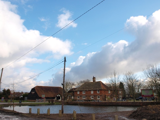 The Red Barn at Blindley Heath with delightful newly dredged swamp.